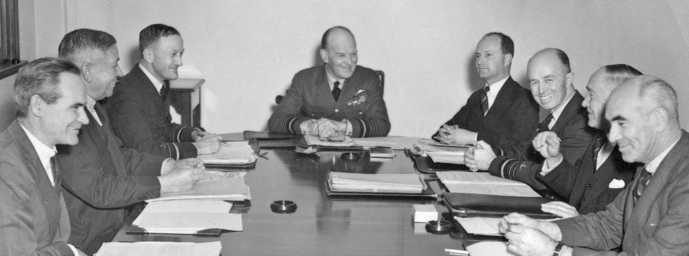 Australia. Department of Air. Air Board (1941 : Victoria Barracks). Shows members sitting at a table, from left: Mr. C. V. Kellway, Finance Member; Mr. r. Lawson, Director General of Supply and Production; Air Vice-Marshal H. N. Wrigley, Air Member for Personnel; Air Chief-Marshal Sir Charles Burnett, Chief of Air Staff; Mr. F. J. Mulrooney, Secretary Air Board; Air Marshall R. Williams, Air Member for Organisation and Equipment; Mr. W. S. Jones, Business Member and Mr. M. C. Langslow, Secretary, Department of Air.